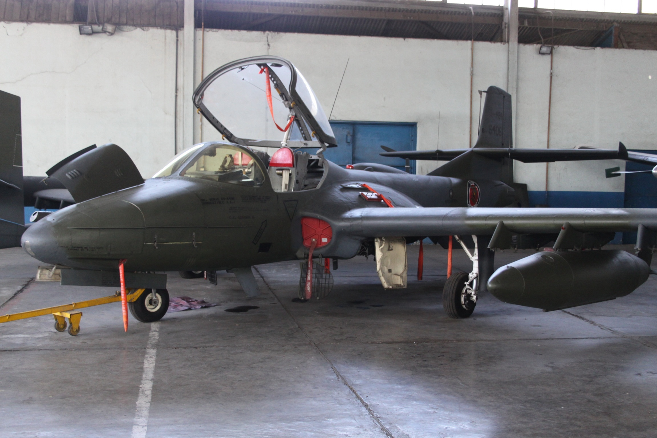 At Guatemala La Aurora International